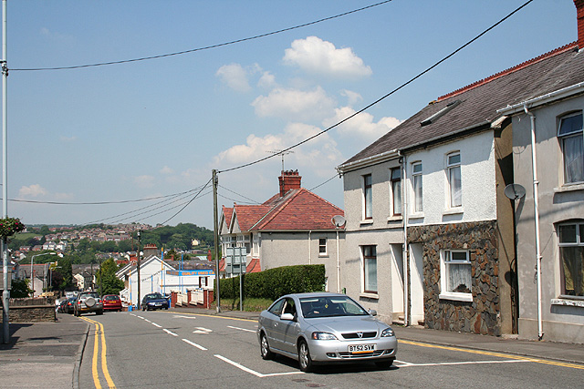 Pontarddulais: St Teilo Street. Looking west-north-west on the A48 trunk road